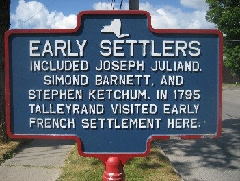 Historic marker of the early settlers that included Joseph Juliand, Simon Barnett, and Stephen Ketchum. In 1795 Talleyrand visited early French settlement here in Greene, NY